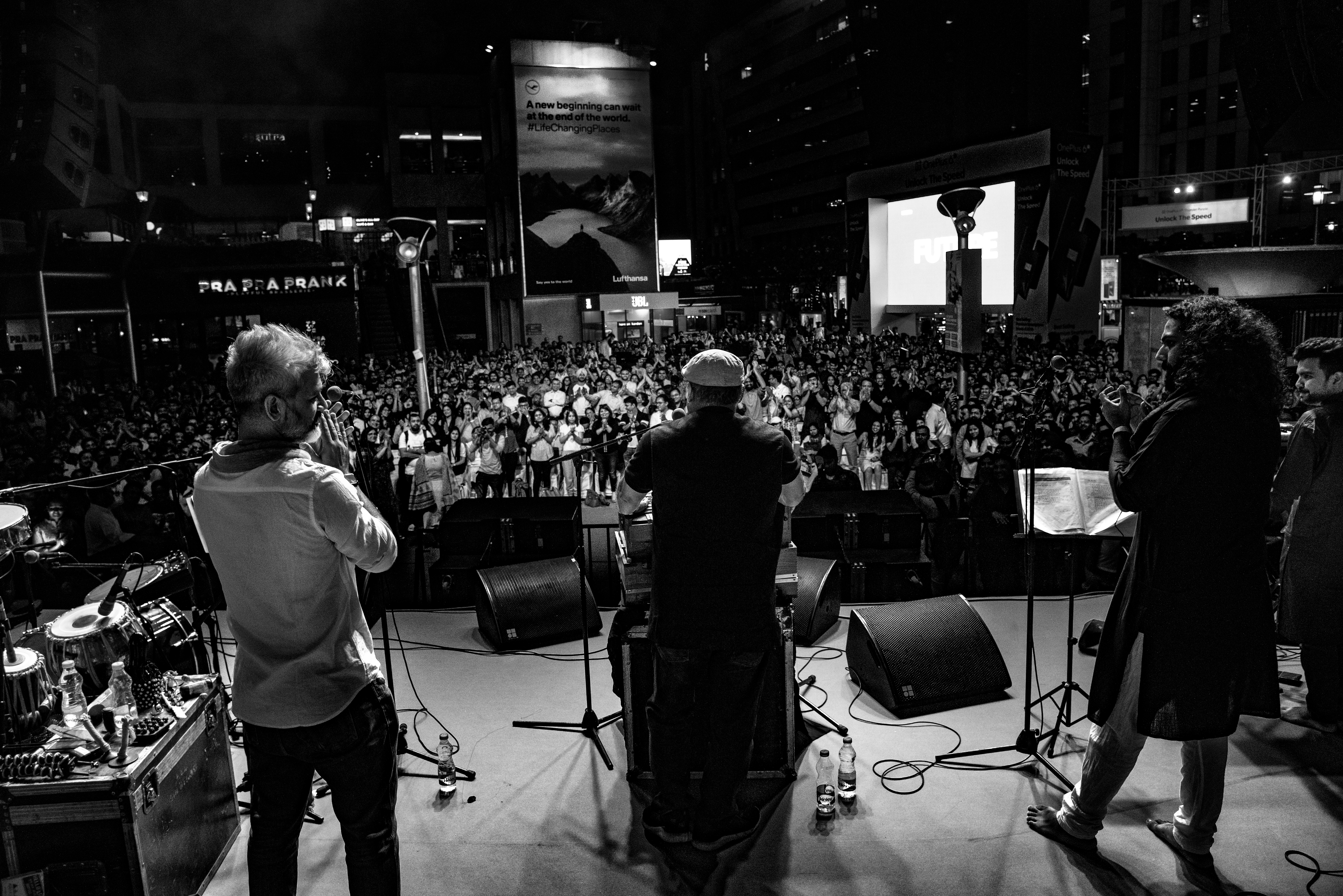 Ballimaaraan performing live at CyberHub in 2019.